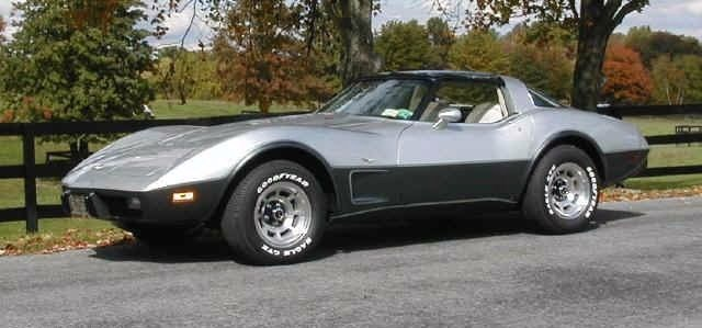 1978 Chevrolet Silver Anniversary Corvette